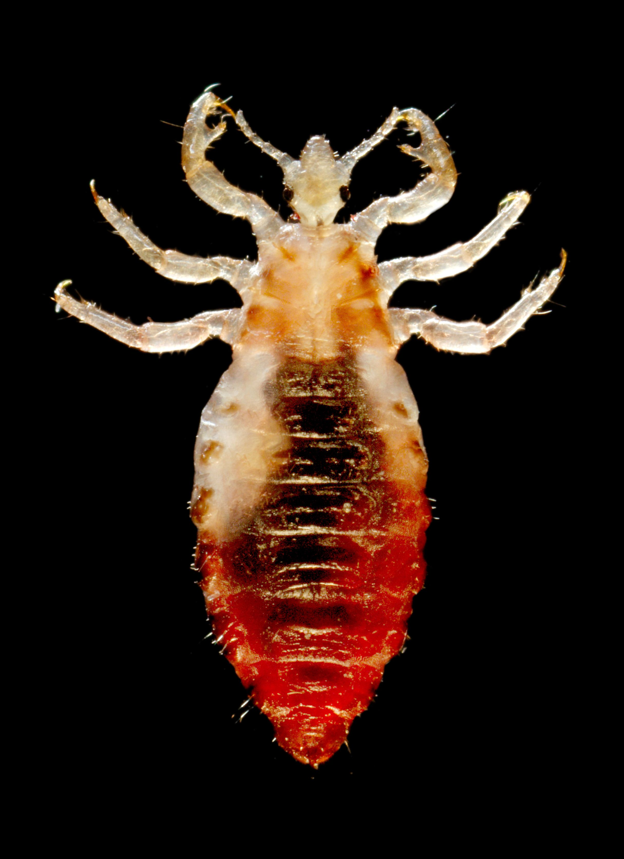 This 2006 photograph depicted a dorsal view of a male body louse, Pediculus humanus var. corporis. Some of the external morphologic features displayed by members of the genus Pediculus include an elongated abdominal region without any processes, and three pairs of legs, all equal in length and width. The distal tip of the male’s abdomen is rounded, whereas, the female’s (PHIL# 9202) is concave. Body lice are parasitic insects that live on the body, and in the clothing or bedding of infested humans. Infestation is common, found worldwide, and affects people of all races. Body lice infestations spread rapidly under crowded conditions where hygiene is poor, and there is frequent contact among people. Note the sensorial setae, or hairs that cover the louse’s body, which pick up, and transmit information to the insect about changes in its environment such as temperature, and chemical cues. The dark mass inside the abdomen is a previously ingested blood meal. Janice Harney Carr